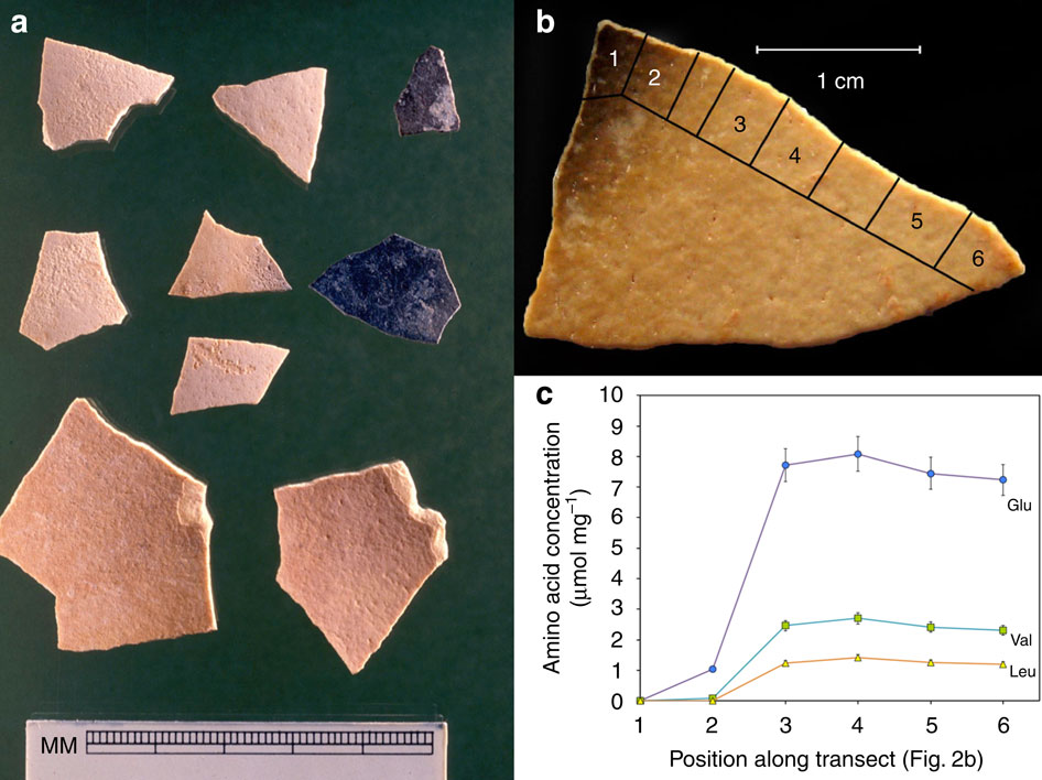 Characterizing blackened Genyornis newtoni eggshell. Image from Miller, Magee et al (2016) [Human predation contributed to the extinction of the Australian megafaunal bird Genyornis newtoni ~47 ka (Figure 2) Nature Communications, Vol 7, number 10496.